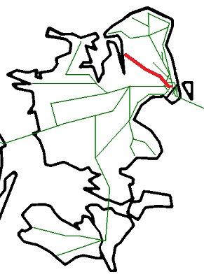 Map of railways on Zealand (Sjælland) in Denmark with the state railway Frederikssundsbanen between Copenhagen and Frederikssund in red.